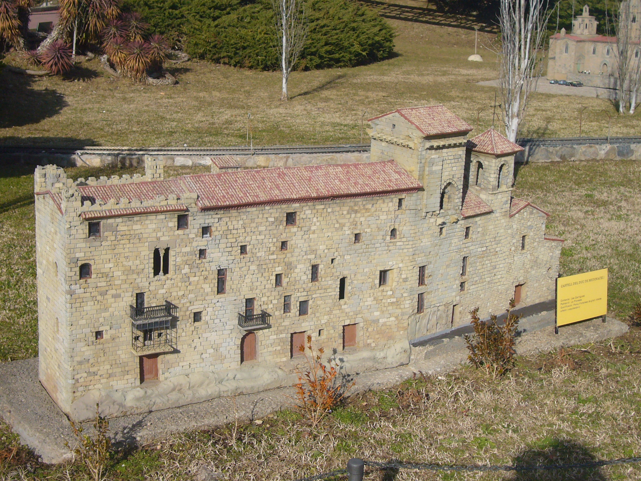 Scale model at the "Catalunya en Miniatura" miniature park : Castle of La Floresta